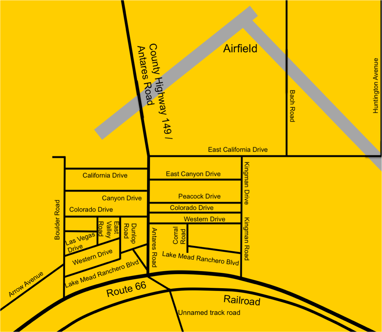 road layout around Antares, Arizona, with reference to and